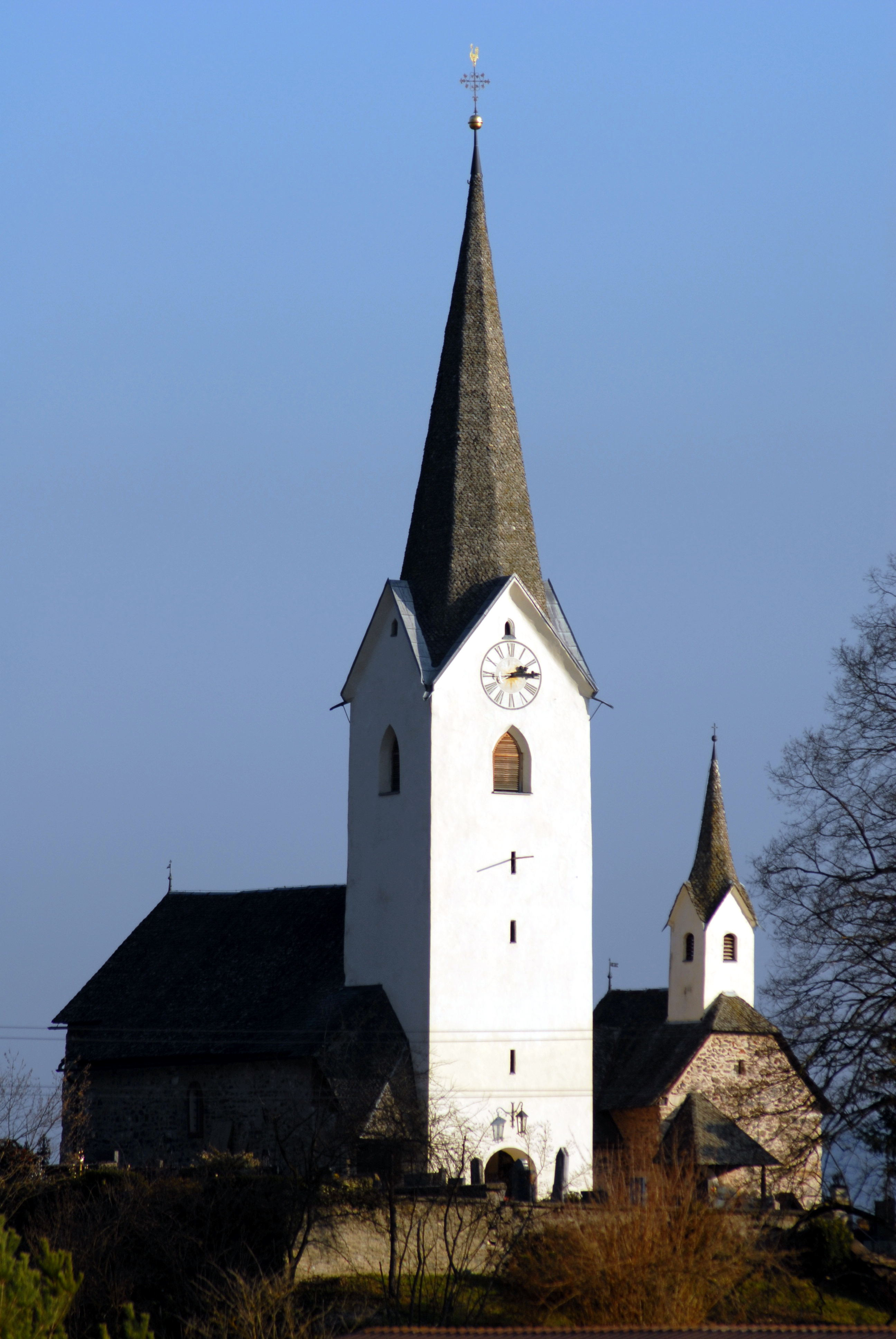 Parish church Saints Peter and Paul on Pfalzstrasse in Karnburg, market town Maria Saal, district Klagenfurt Land, Carinthia, Austria, EU